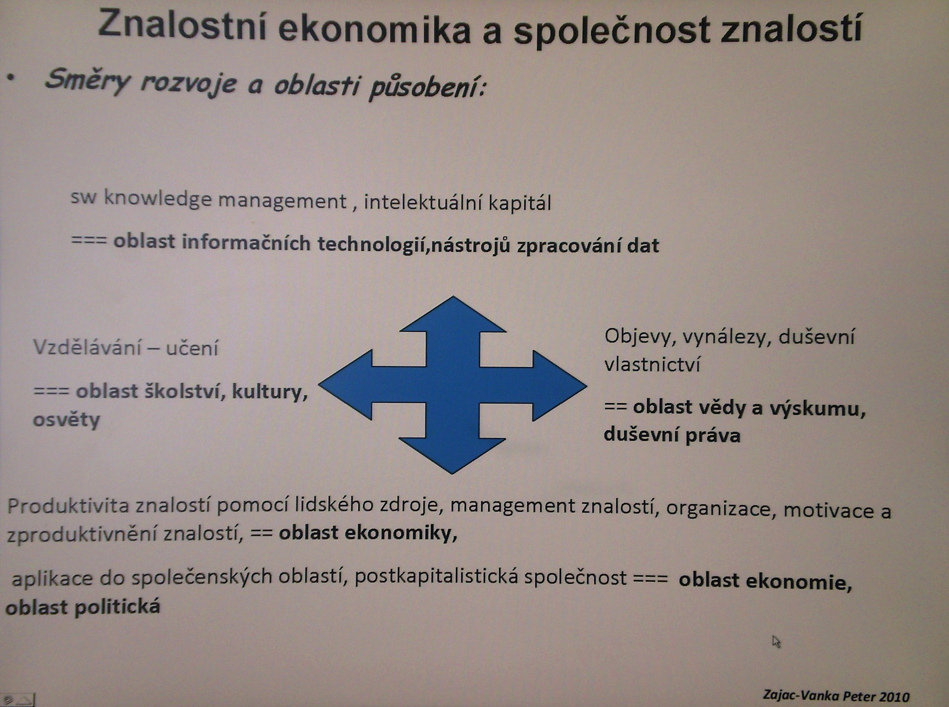 Knowledge economy and society_diagram in czech language